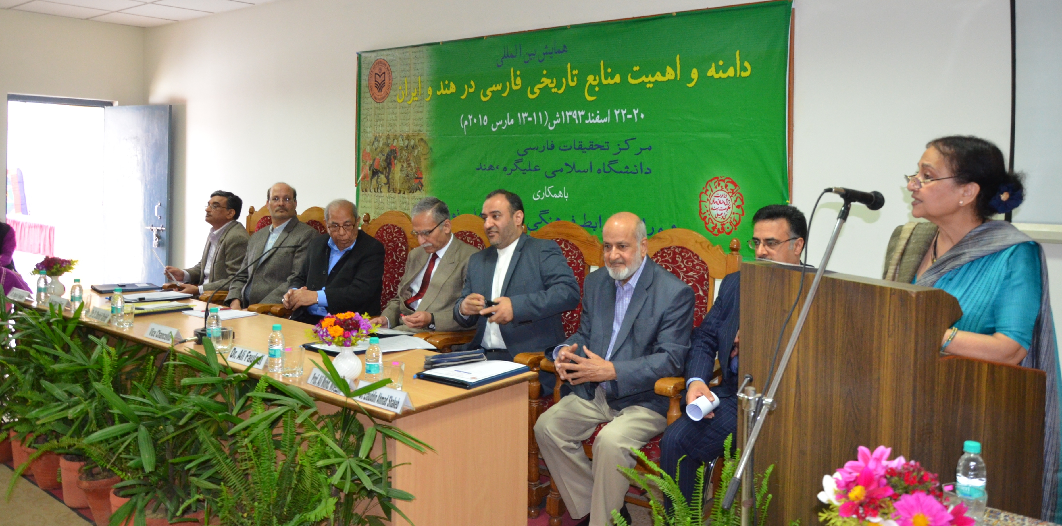 Azar Midokht.Iranology